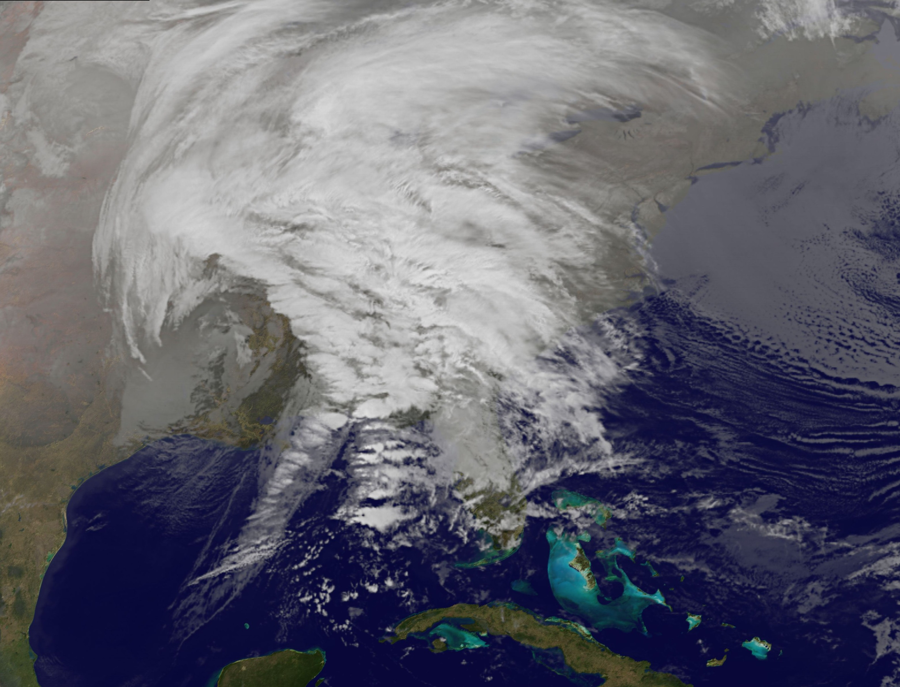 2009 Christmas Winter Storm while at 992mb on 12/24